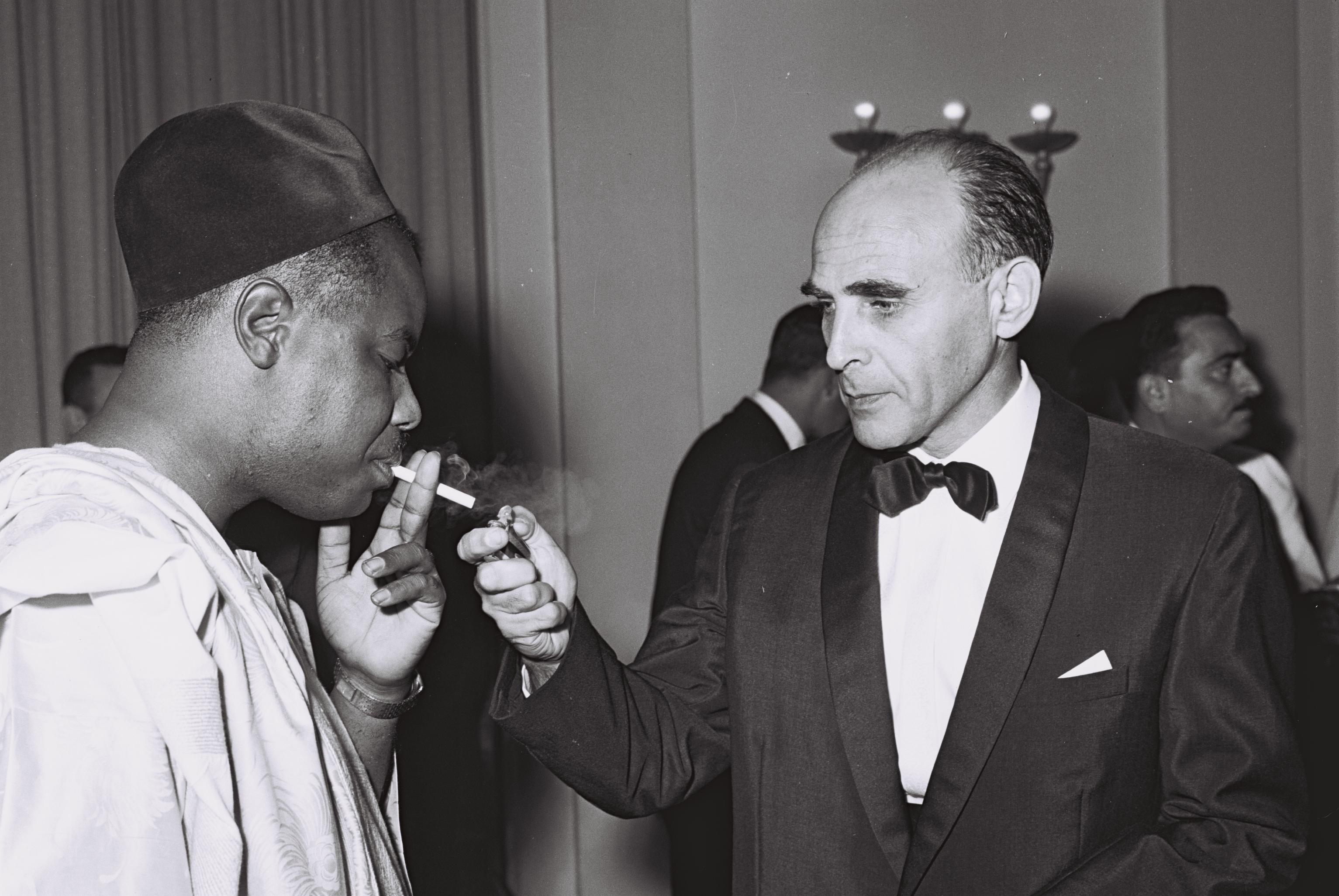 CAMEROUN PRES. AHMADOU AHIDJO WITH ISRAELI AMB. IN CAMEROUN ELHANAN GAFNI, AT RECEPTION IN THE KING DAVID HOTEL IN REHOVOT.